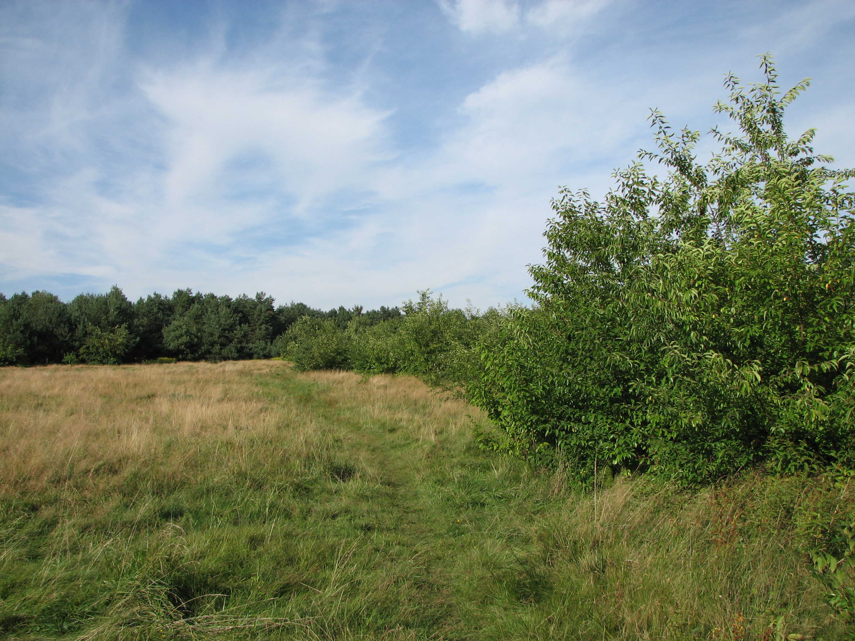 Panewniki's Forests in Katowice, Poland